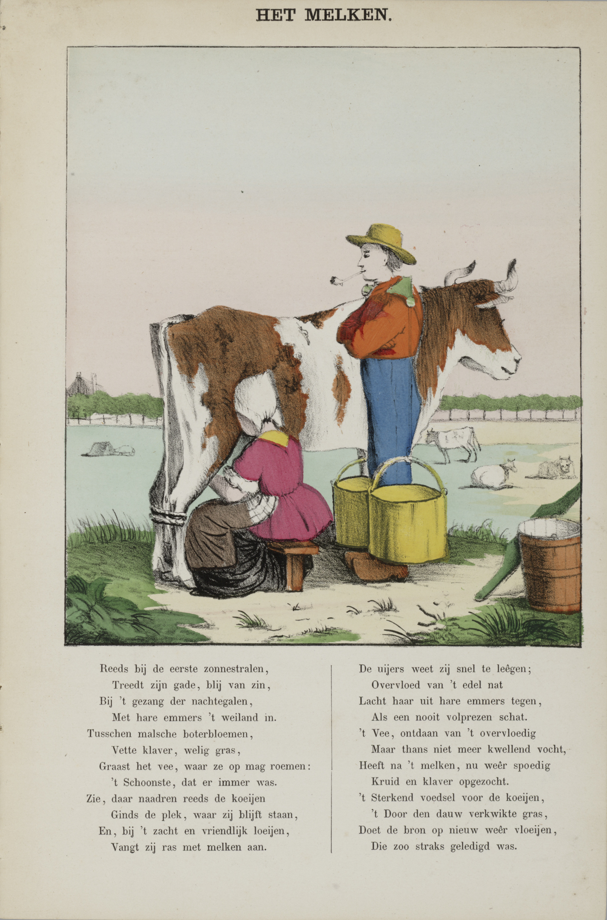 De Boerderij - nieuw prentenboek